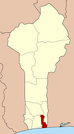 Map of Benin highlighting the department Oueme